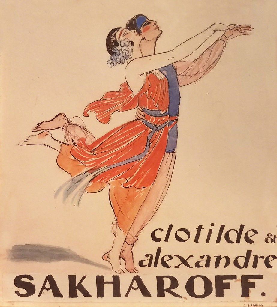 Clotilde et Alexandre Sakharoff - Original Artwork - Dancing, 1921 Ink, Watercolor, Opaque Paint, Pencil 9 1/2 × 8 in; 24.1 × 20.3 cm